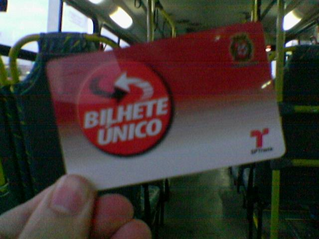 Using my public transportation card on the bus. I have no driver's license yet =( - Taken at 5:56 PM on August 29, 2006; cameraphone upload by ShoZu